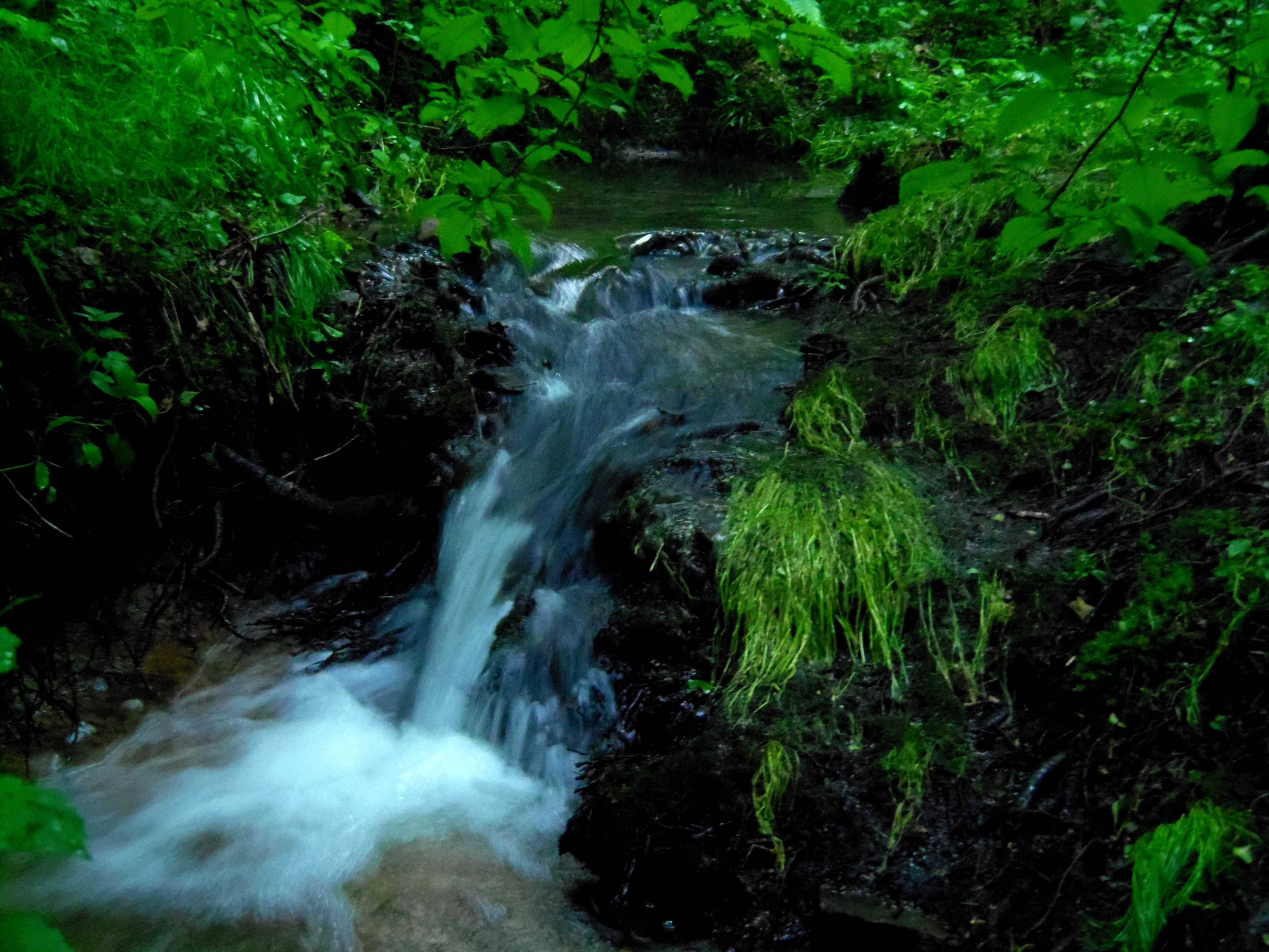 Upper waters of the Auerbach creek close to the industrial park of Ittersbach in Karlsbad (Baden).